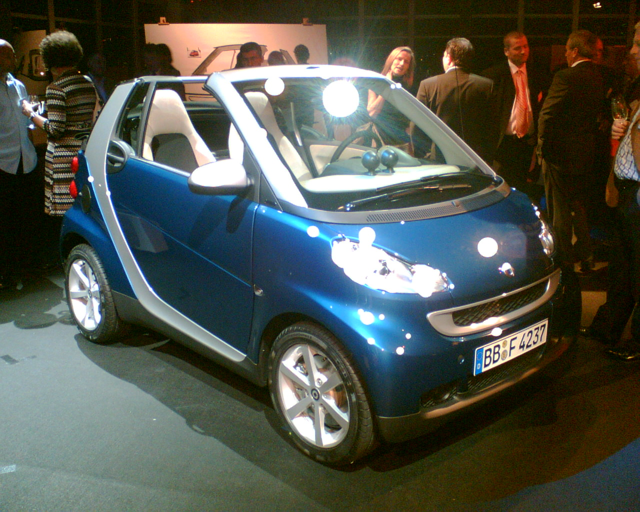 Smart Fortwo in 2007 in Bonn, Germany